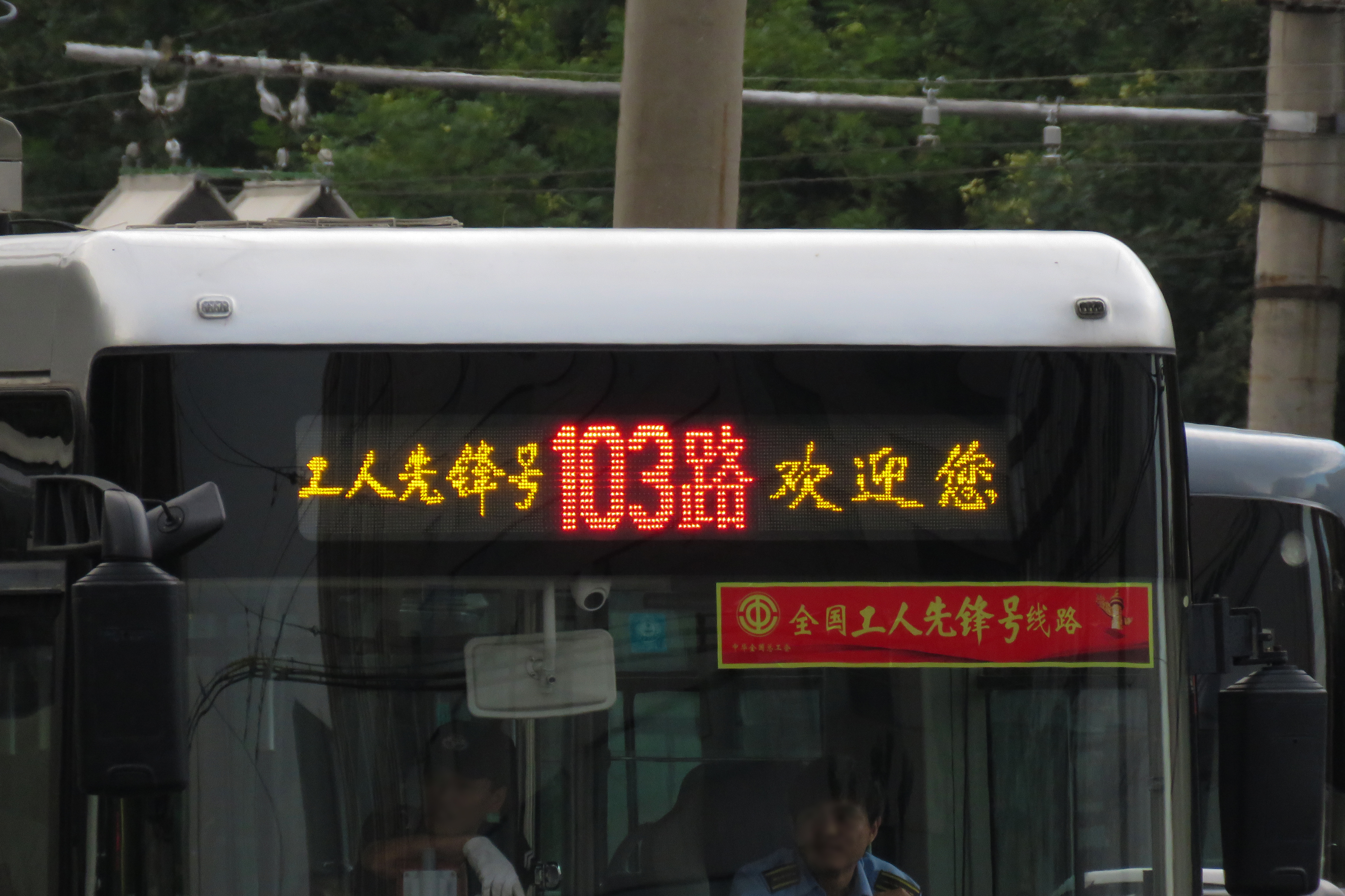 Special display "Welcome to Workers' Pioneer Route 103".